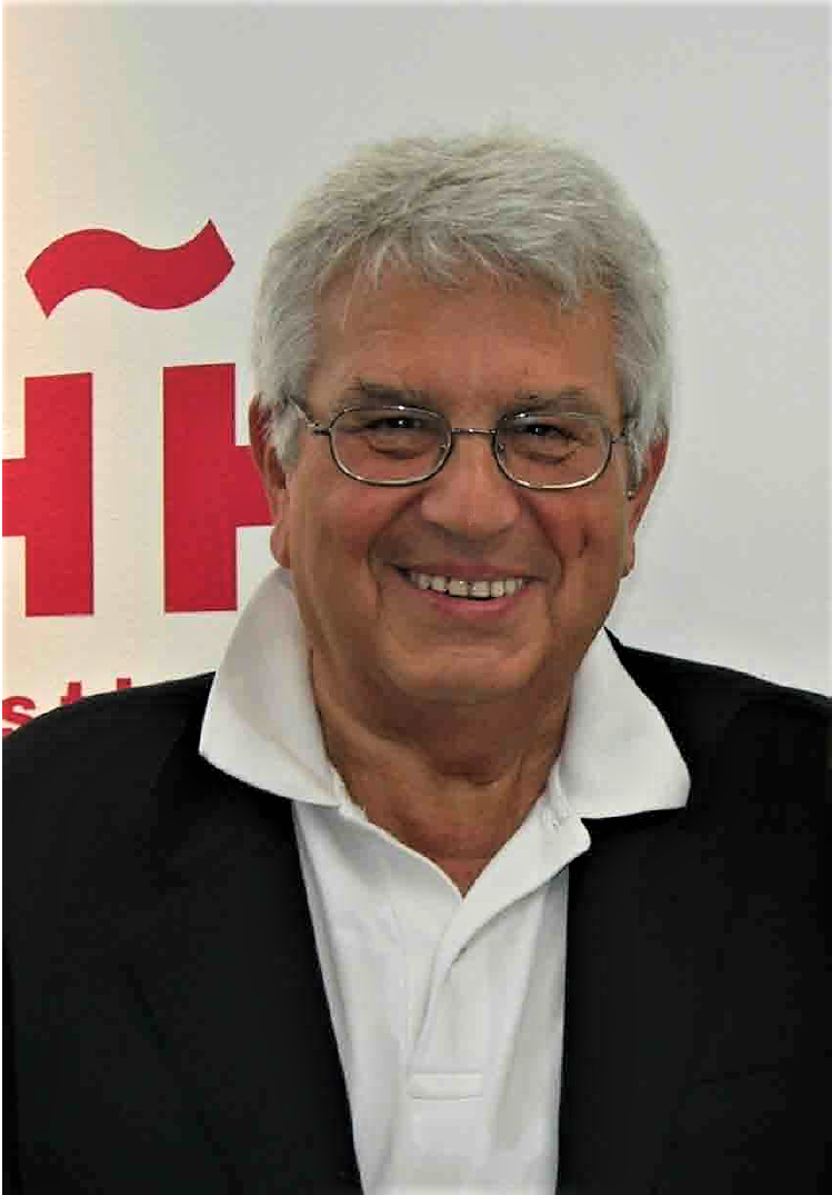 Portrait of Aldo Ruffinatto